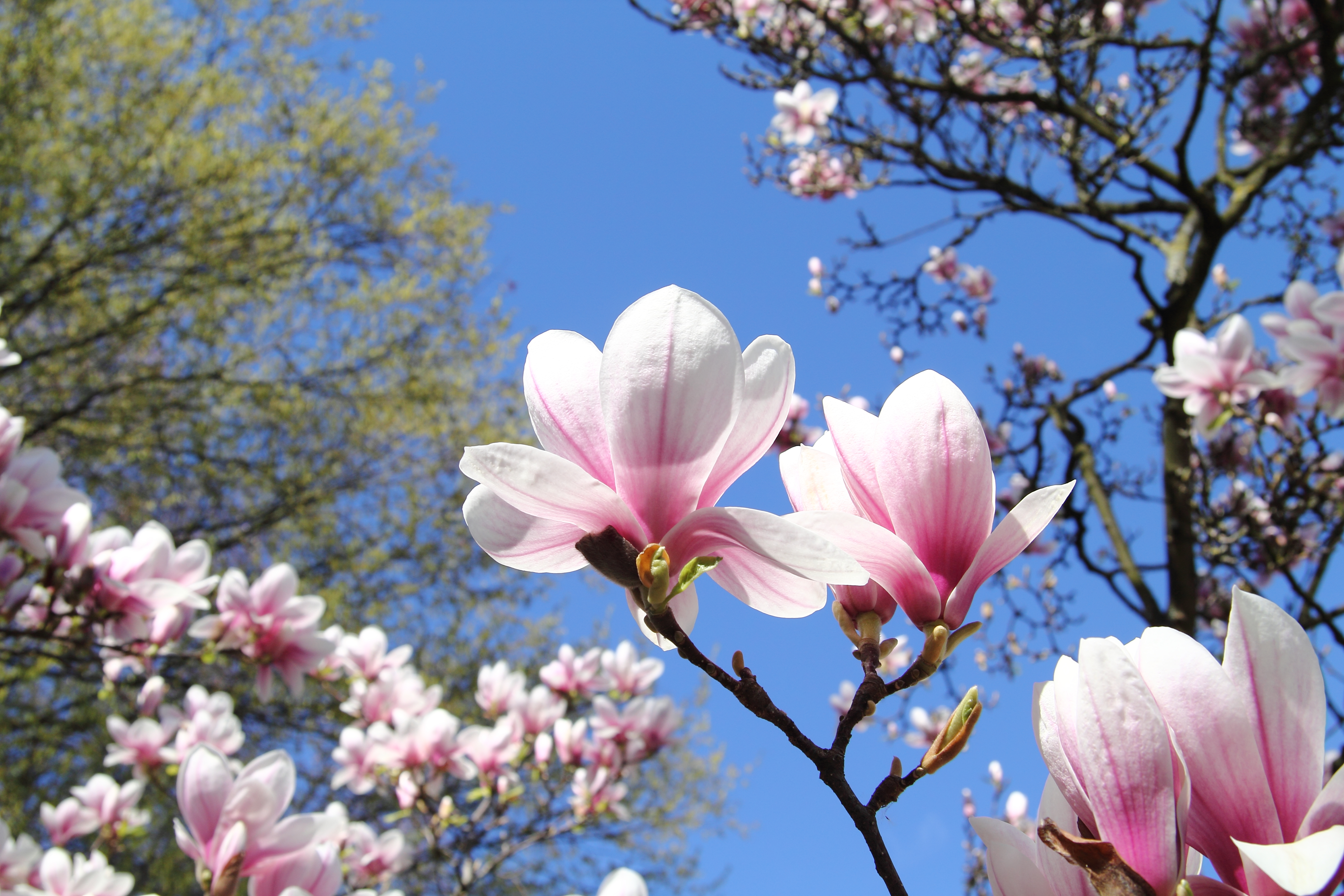 "Magnolia Grove", part of Schöntal Park in Aschaffenburg, Bavaria, Germany, 2014